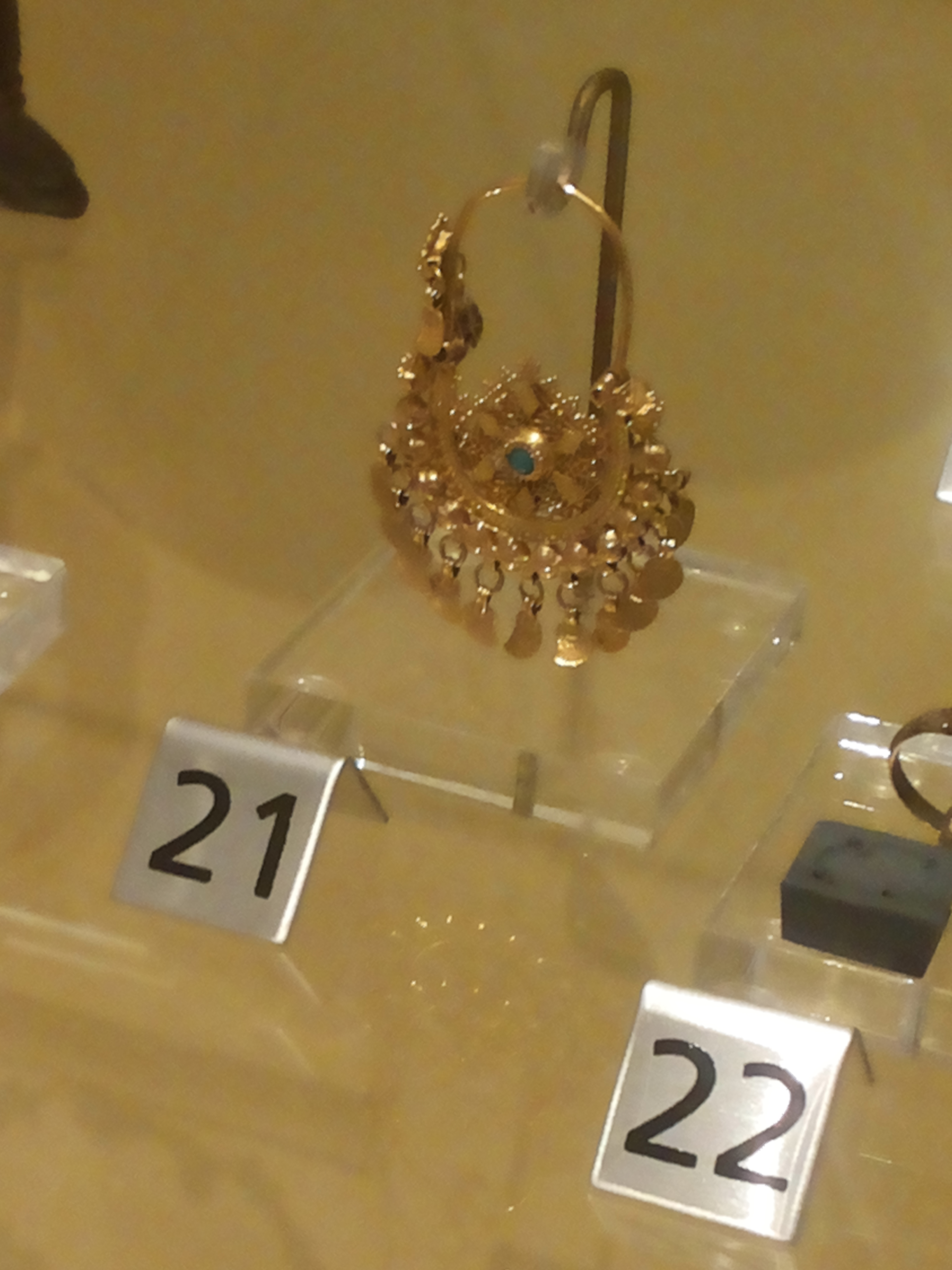 A golden earring of 19th century, Kurdistan, Iran, Royal Ontario Museum